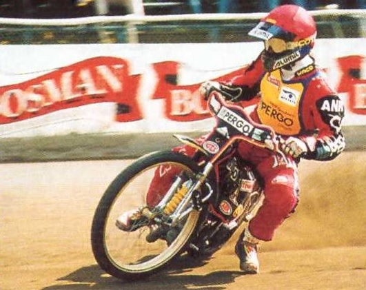 Tomasz Bajerski in "Stal" - season 1999.